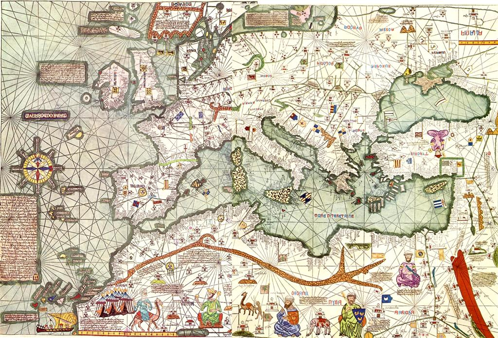 Map of Europe and the Mediterranean from the copy to XIX century of Catalan Atlas of 1375, second chart, first cartography.